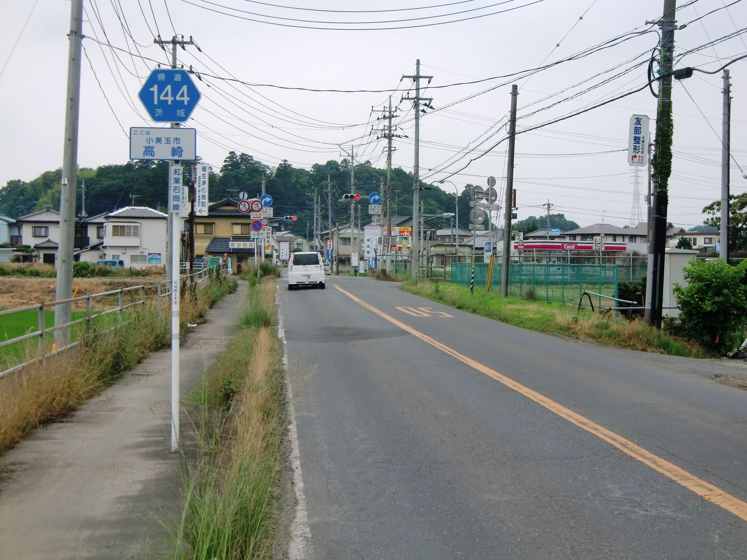 Ibaraki prefectural road 144 (Momiji-Ishioka line) in Takasaki, Omitama city, Ibaraki prefecture, Japan.